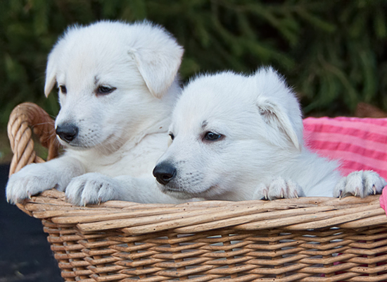 Berger Blanc Suisse Puppies 5 weeks, female, White Shepard, Puppies, Dogs